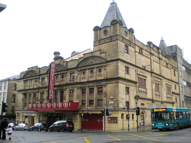 The Pavilion Theatre on the corner of Renfield Street and Renfrew Street. It started out as a music hall and continues in that tradition as a venue for populist entertainment, this is Glasgow's pantomime venue. It is privately owned and self sufficient, quite a rarity.